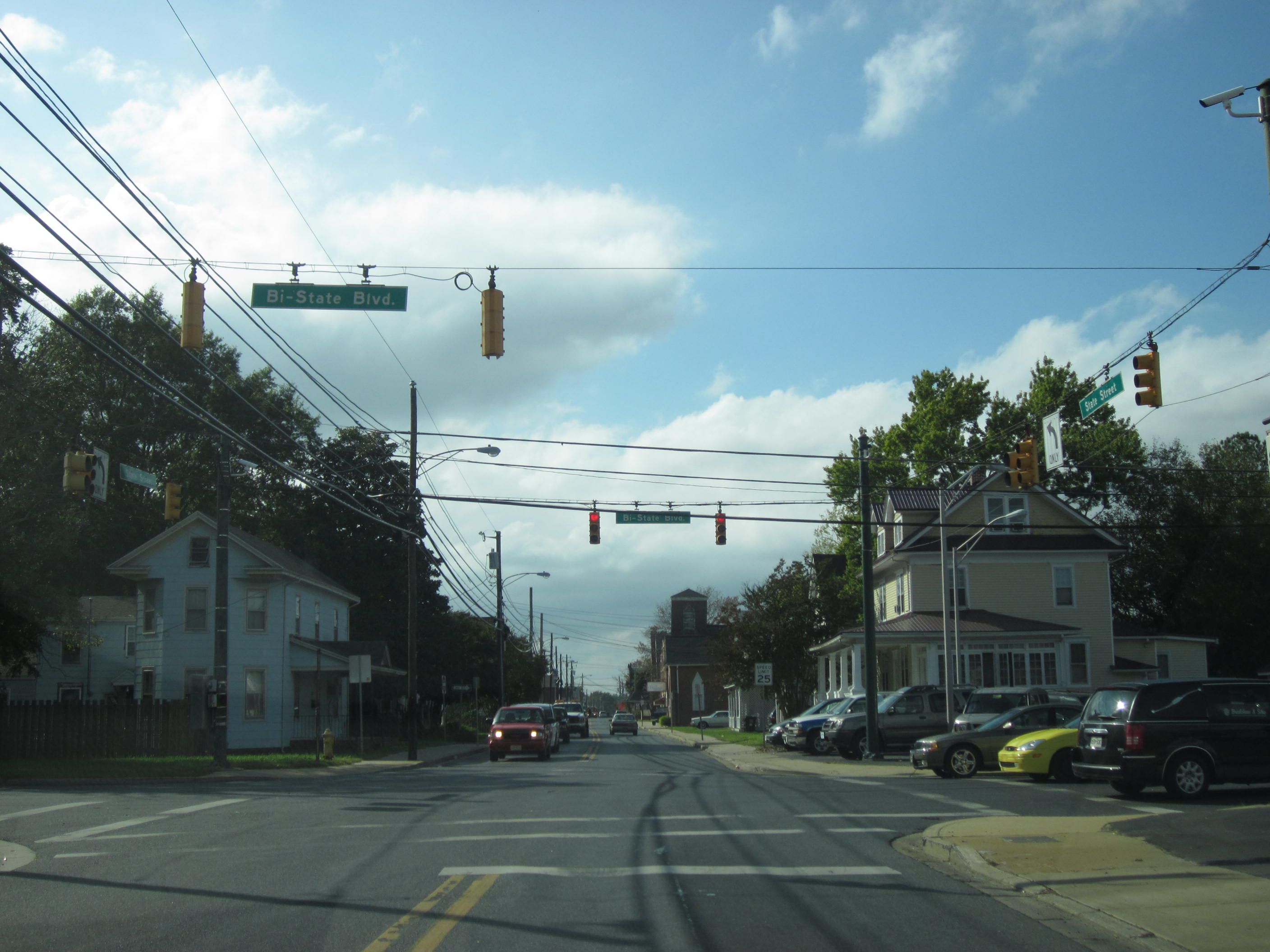 Delaware State Route 54/Maryland Route 54 westbound at intersection with Maryland Route 675/Bi-State Boulevard in Delmar. Maryland is on the left side of the road and Delaware is on the right side of the road.